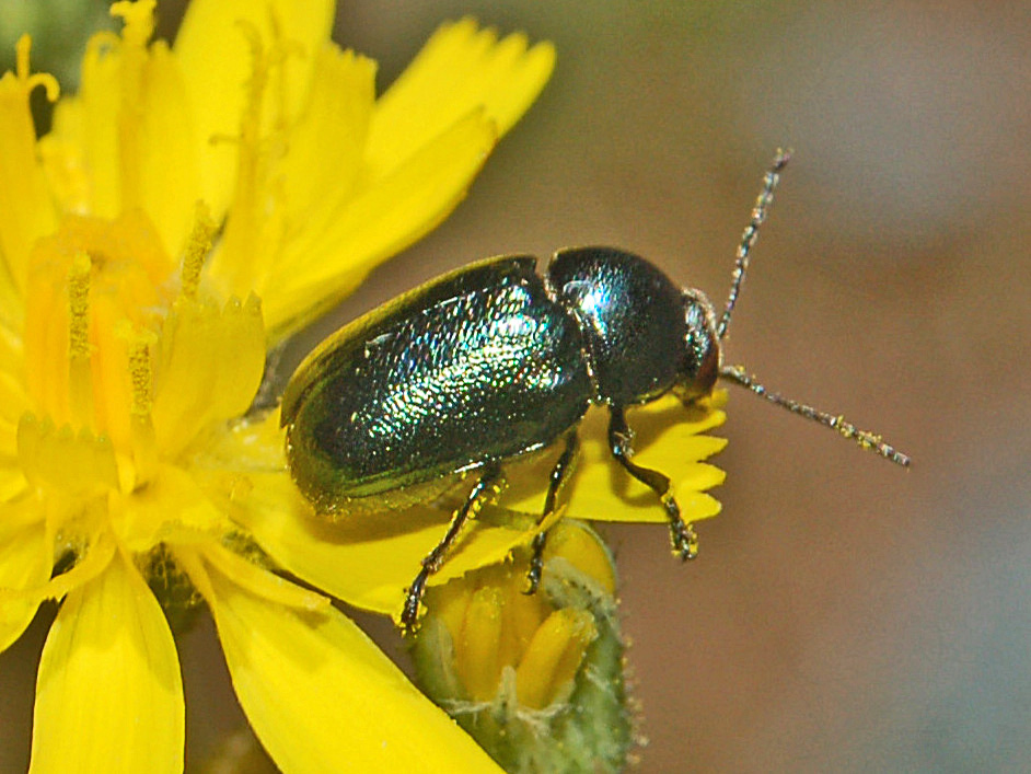 Cryptocephalus cf. virens. Pragelato, Torino, Italy